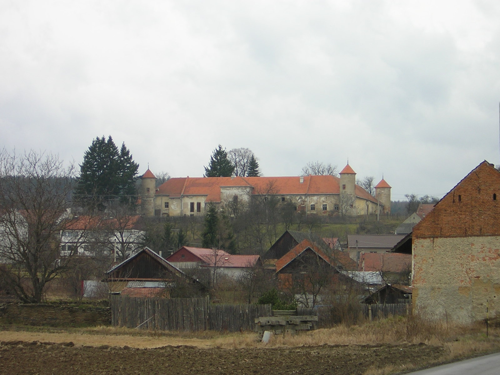 View of the village Ptení, Czechia, Europe.